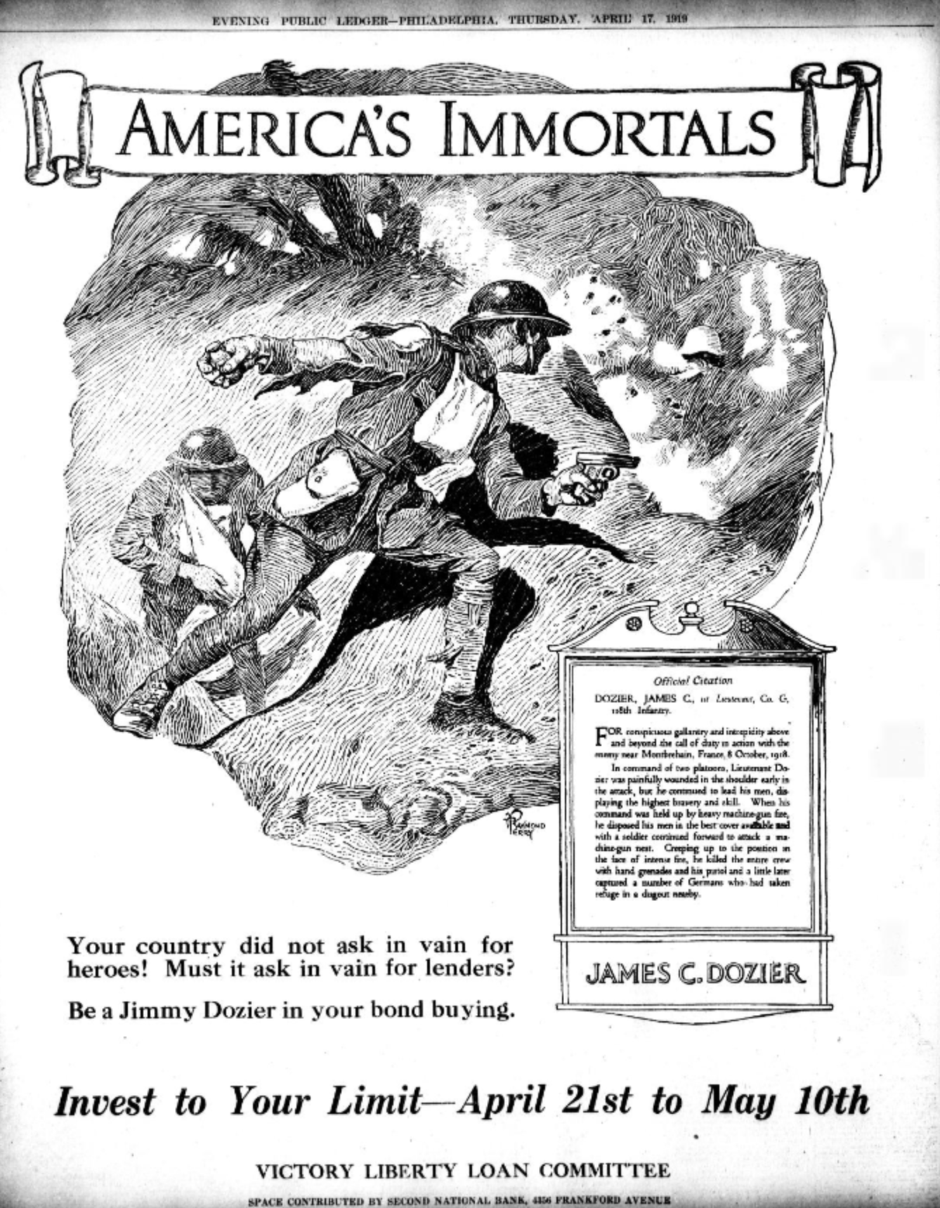 Oct 8 1918 James Dozier signaled to quit firing and he and Pte Smith rushed the machine gun. "One of the machine gunners was about to get me with his revolver when Callie Smith downed him," together they knocked out the entire squad of 7 machine gunners